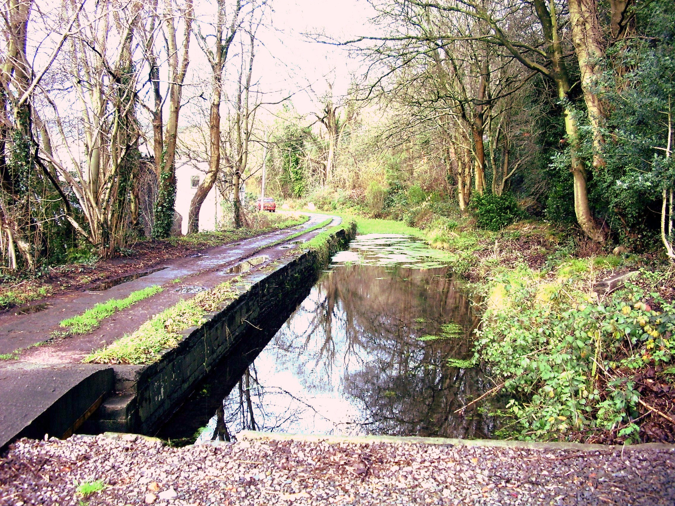 This shows the southernmost length of the remains of the Glamorganshire Canal at Pontypridd. One of the Nightingales Bush cottages can be seen. The overflow weir to the River Taff is at the lower left.